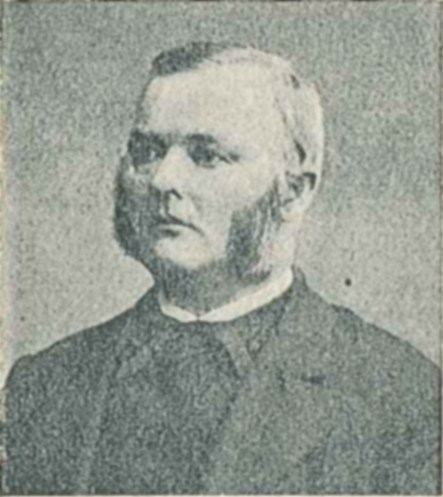 Swedish politician Anders G. Andersson i Himmelsby. From page 10 of an album featuring portraits of all the members of the second chamber of the Swedish parliament (Sveriges riksdag) elected in 1897.